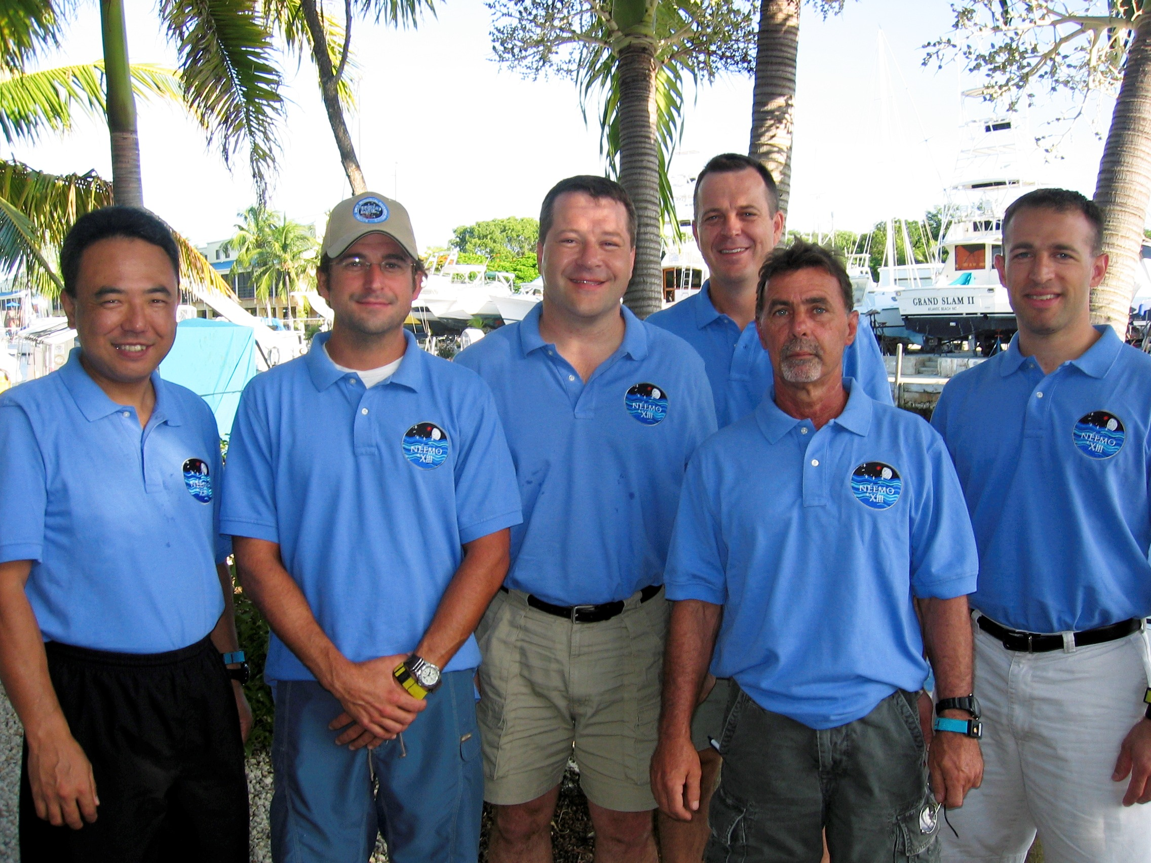 The crew of the NASA-NOAA NEEMO 13 mission (August 6-15, 2007). From left: JAXA astronaut Satoshi Furukawa, habitat technician Dewey Smith, NASA astronauts Nicholas Patrick and Richard R. Arnold II, habitat technician Jim Buckley, and NASA engineer Christopher E. Gerty. Smith died in May 2009 during a dive from the Aquarius underwater habitat. From NASA image JSC2007-E-41604 (3 August 2007) in public domain.